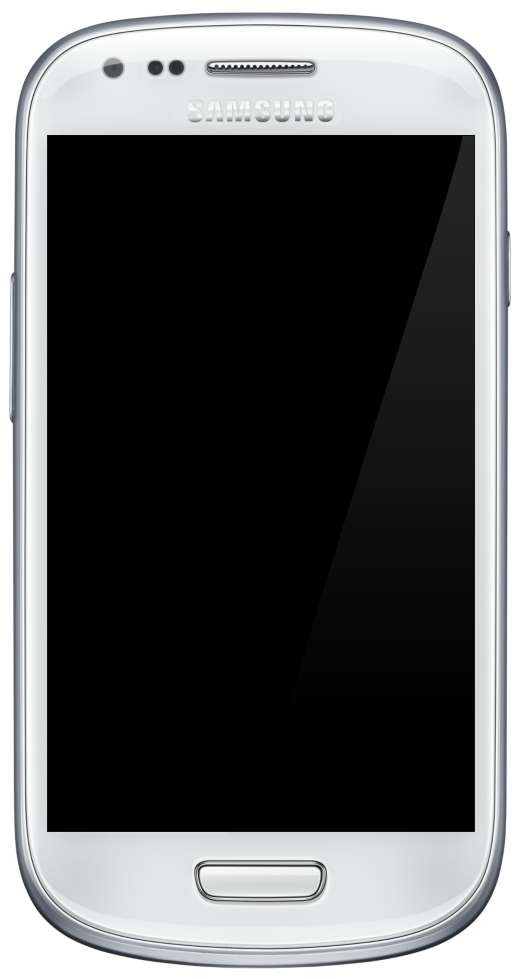 Samsung Galaxy SIII mini render